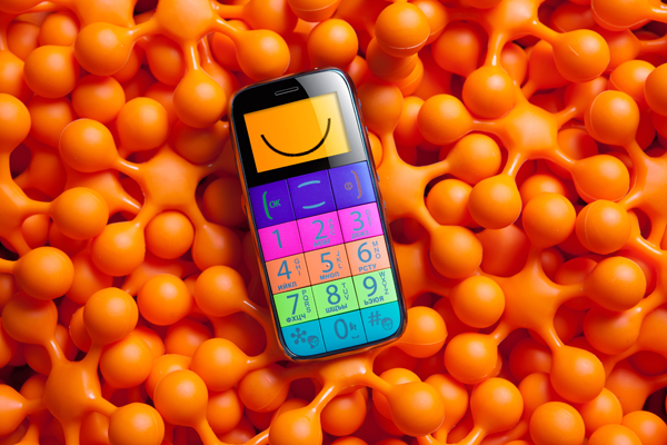 Just5 Best In Space